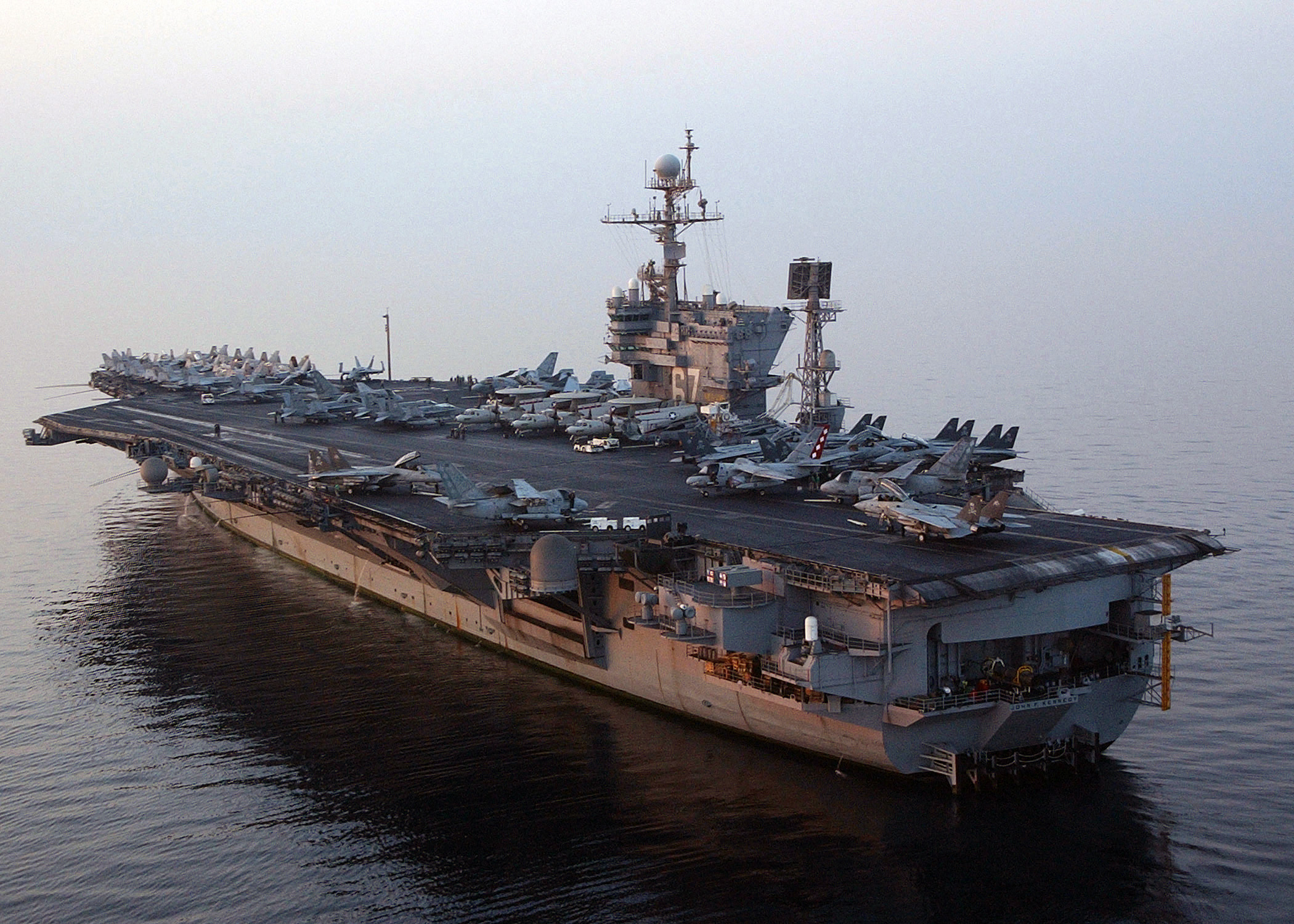 Aerial port quarter stern view of the US Navy (USN) Aircraft Carrier USS JOHN F. KENNEDY (CV 67) underway in the Arabian Sea with embarked Carrier Air Wing 17 (CVW-17), while deployed to the 5th Fleet's area of responsibility in support of Operation IRAQI FREEDOM.